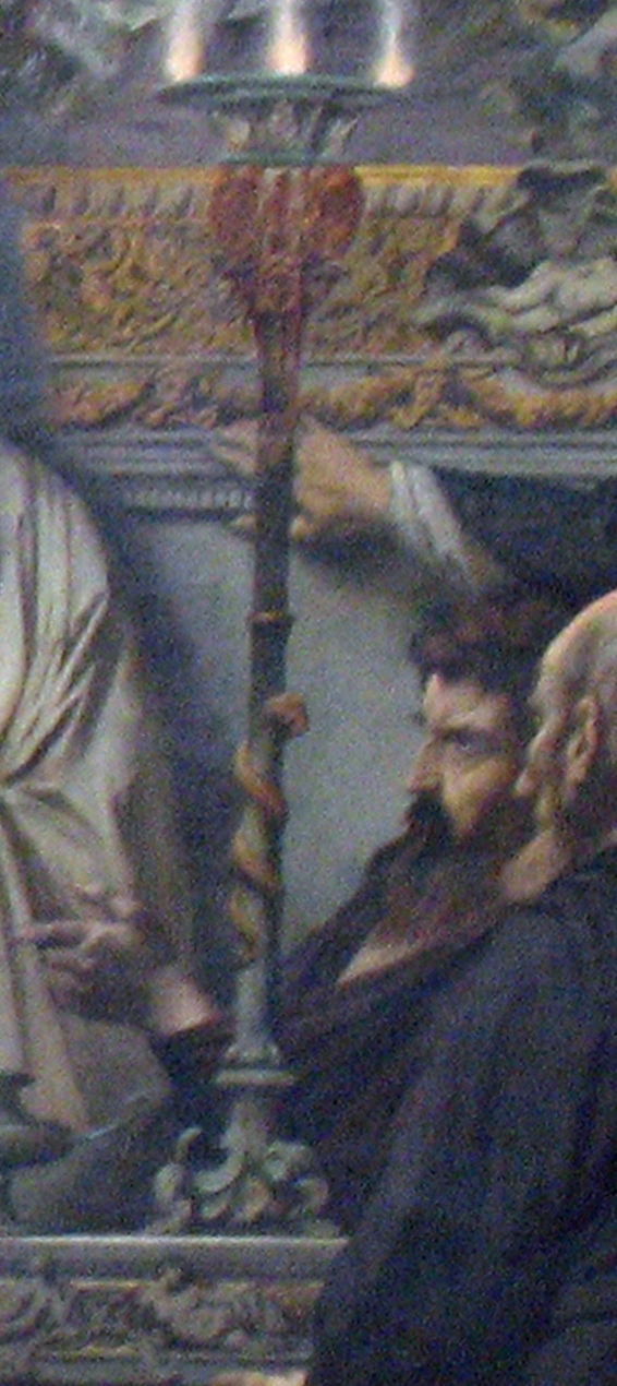 Crop of The Banquet (after Plato).